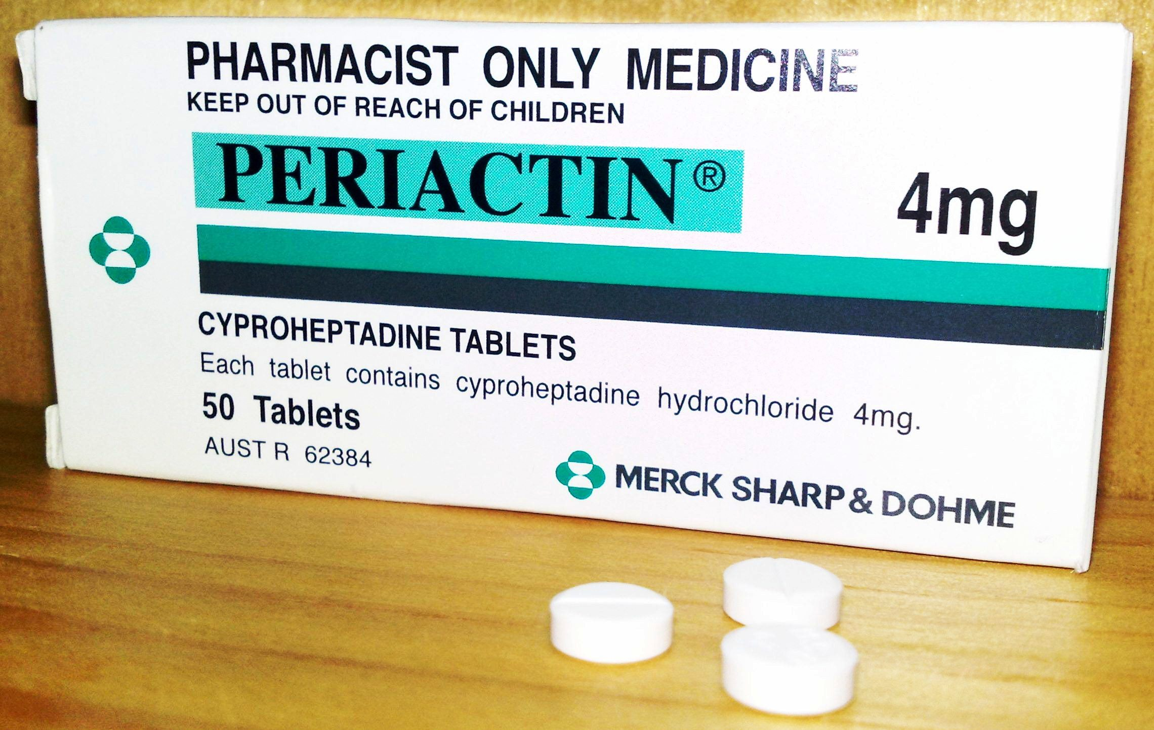 Periactin